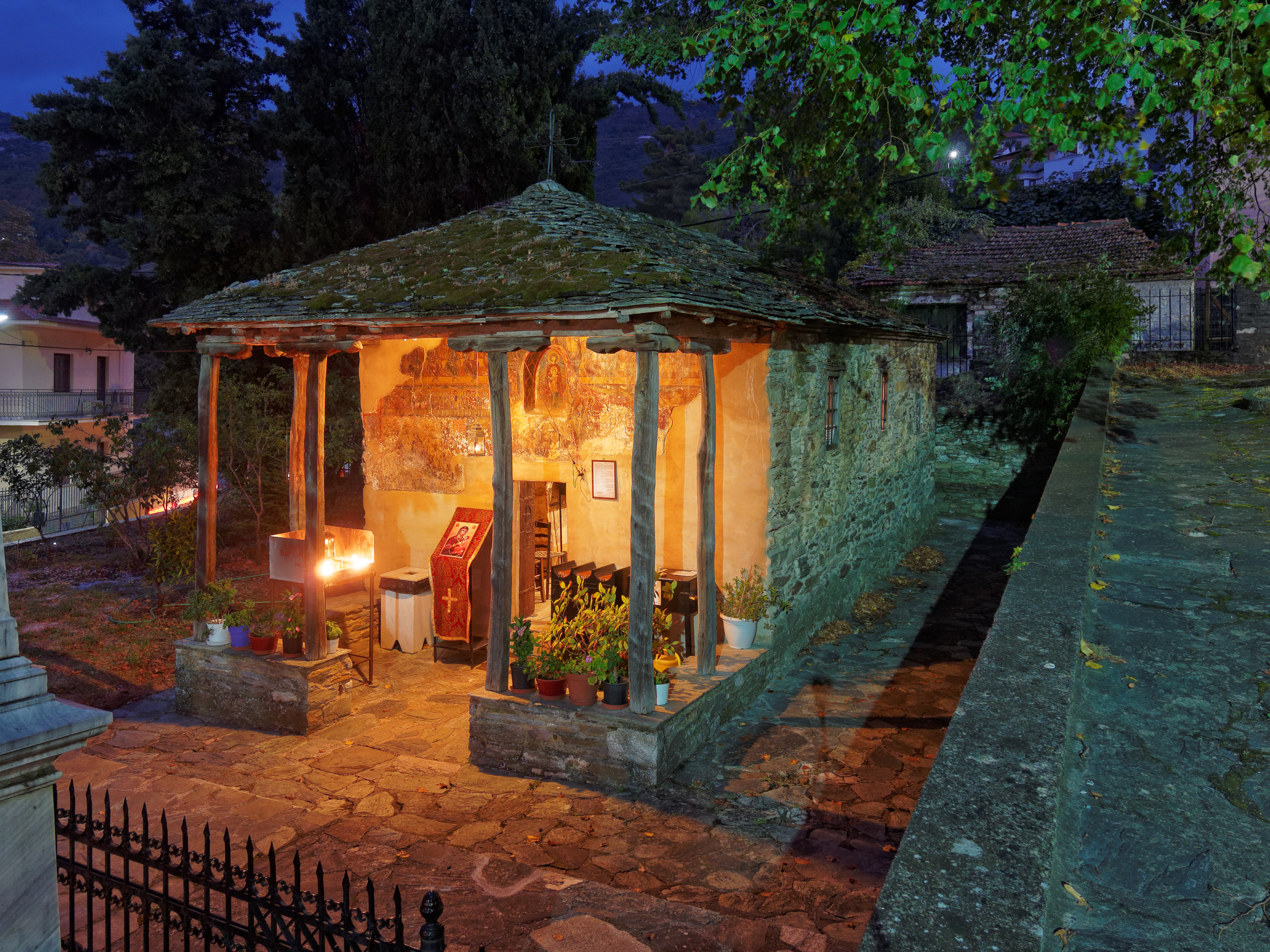 Exterior view of Panagia Portarea church.